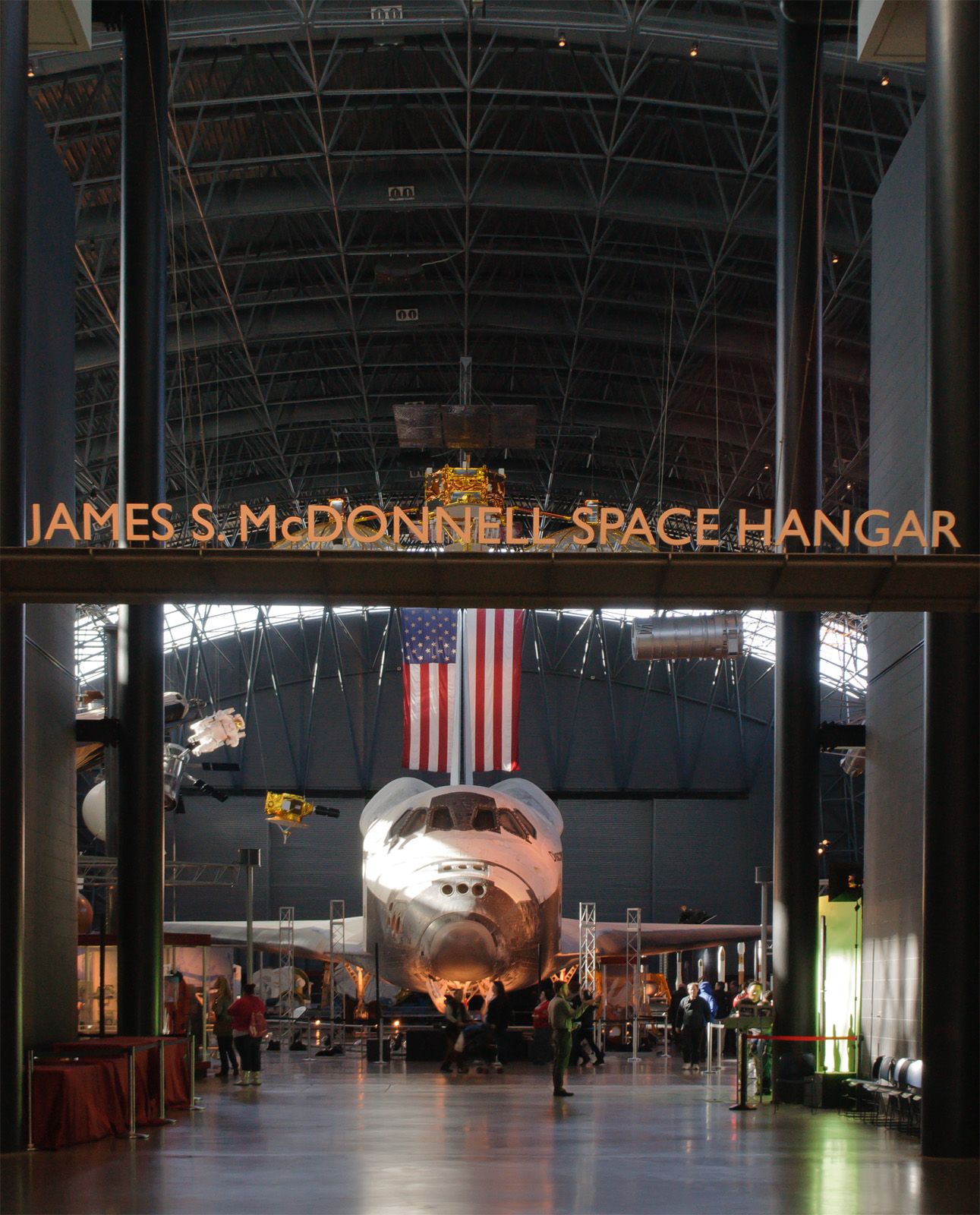 Space Shuttle Discovery is the star attraction of the James S. McDonnell Space Hangar at Udvar-Hazy Center. Udvar-Hazy opened in 2003 as the annex of the Smithsonian National Air and Space Museum. Located on Dulles Airport, this facility can house many exhibits that are too big for the main museum on the Washington Mall. The facility was home to a number of rare artifacts, including an SR-71, a B-29, and Space Shuttle Enterprise. With the retirement of the Space Shuttles, Enterprise was sent to Intrepid Air & Sea Museum in New York City, and Udvar-Hazy instead received the Discovery, the most traveled manned spacecraft in history.